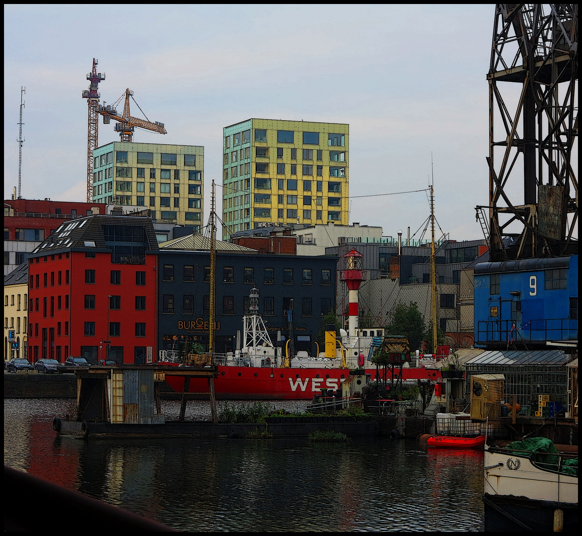 the Inner Harbor at the Napoleon Dock